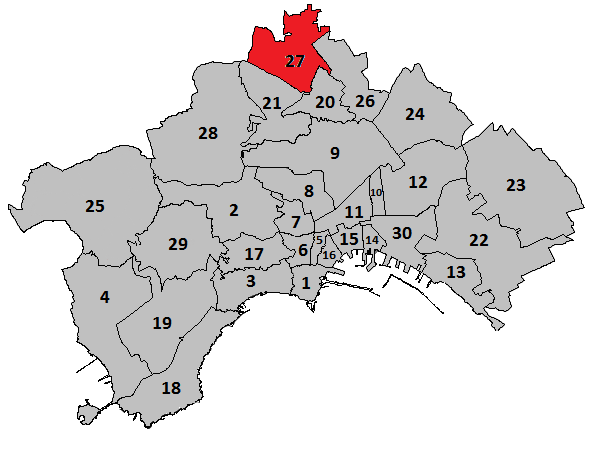 Quartiere Scampia in Naples